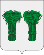 Kadyi (Kostroma oblast), coat of arms